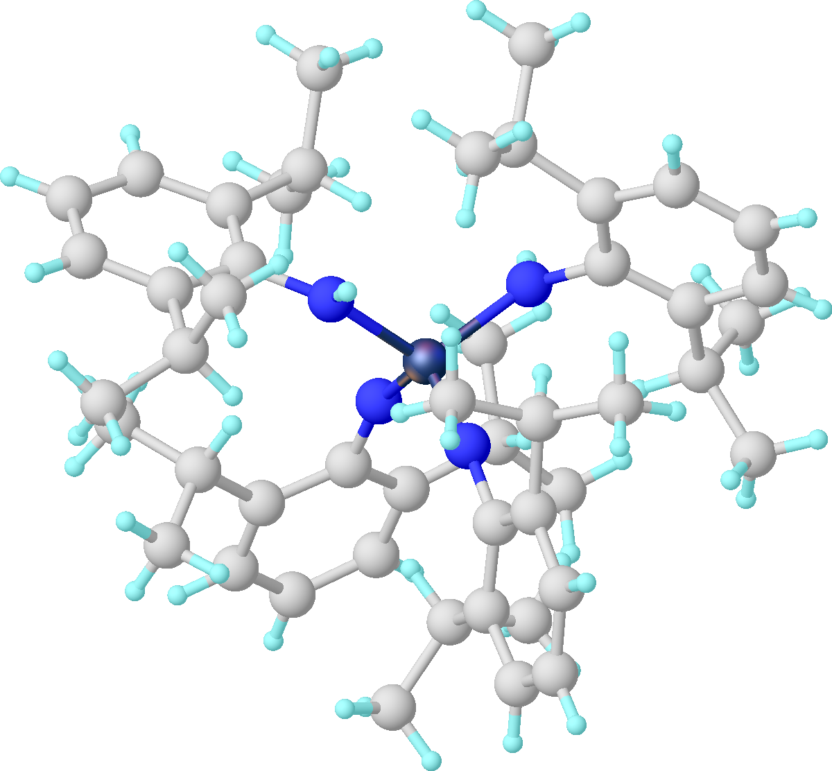 Structure of W(NHAr)2(NAr)2 (H2NAr = diisopropylaniline)